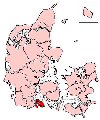 Map of Sønderborg County 1793-1970